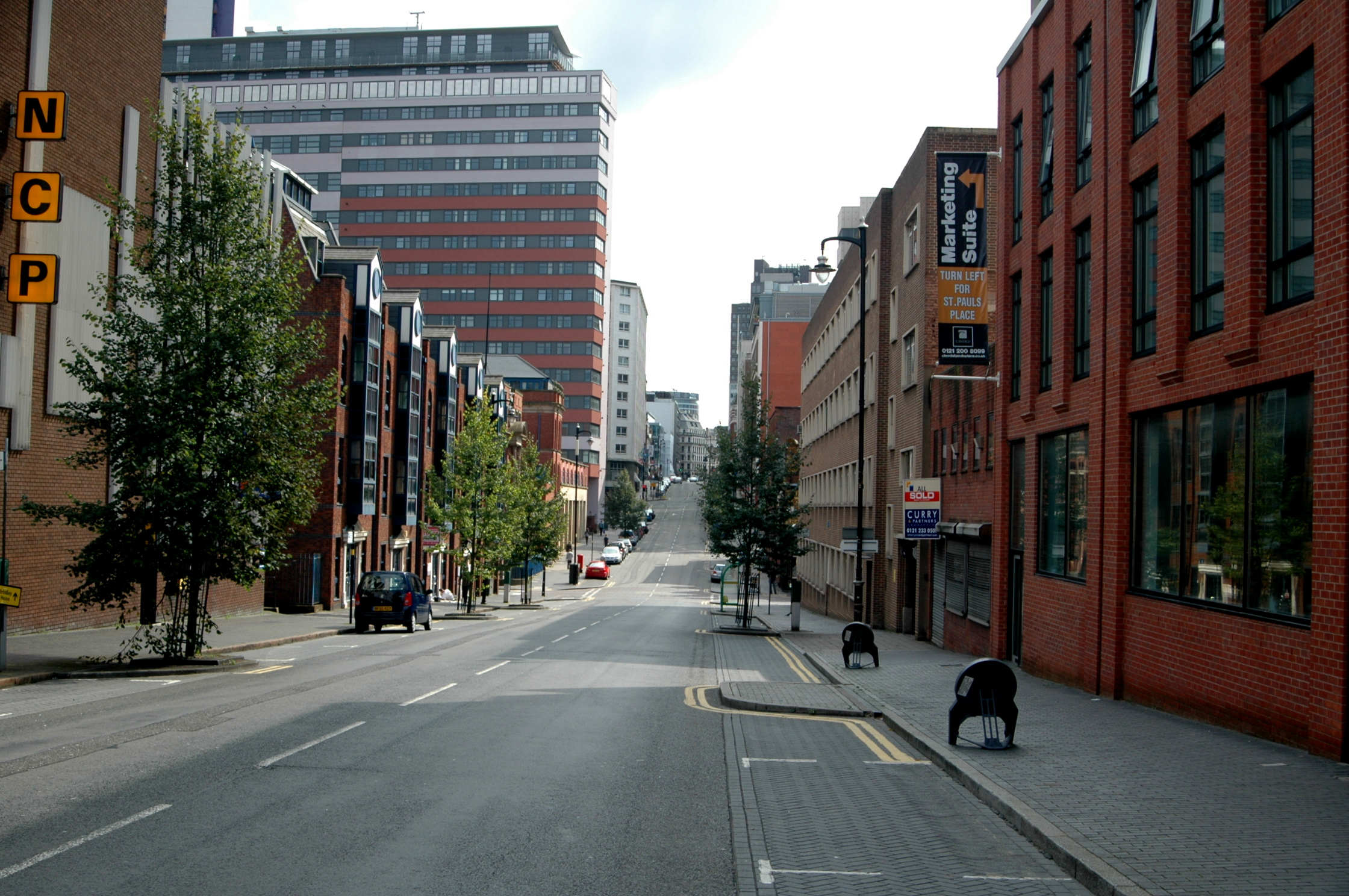 This is the view south along Newhall Street from the Jewellery Quarter into the city centre core in Birmingham.